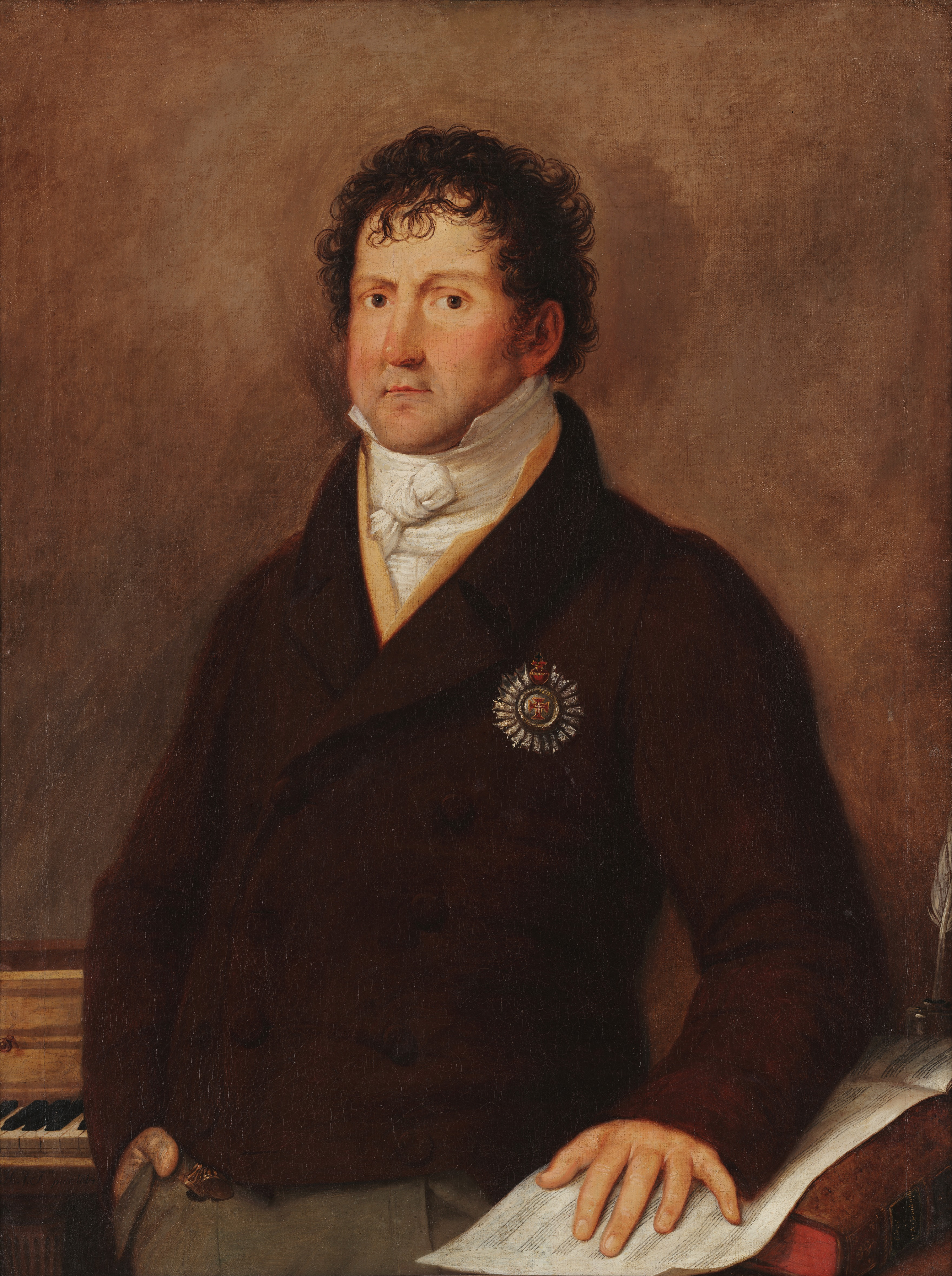 Portrait painting of João Domingos Bomtempo (1775-1842)